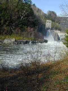 The Ottauquechee River flowing from the dam of North Hartland Lake in Hartland, Vermont